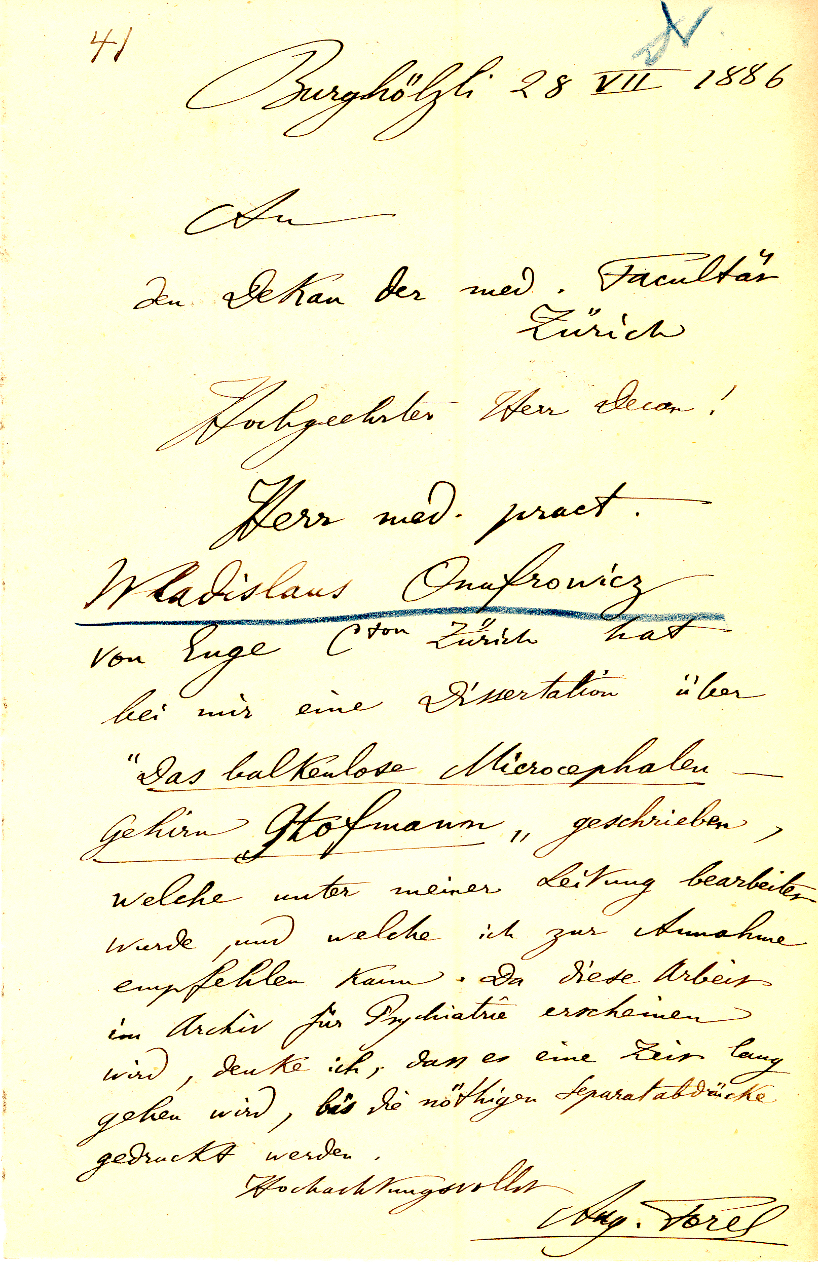 Auguste Forel's recommendation letter W. Onufrowicz